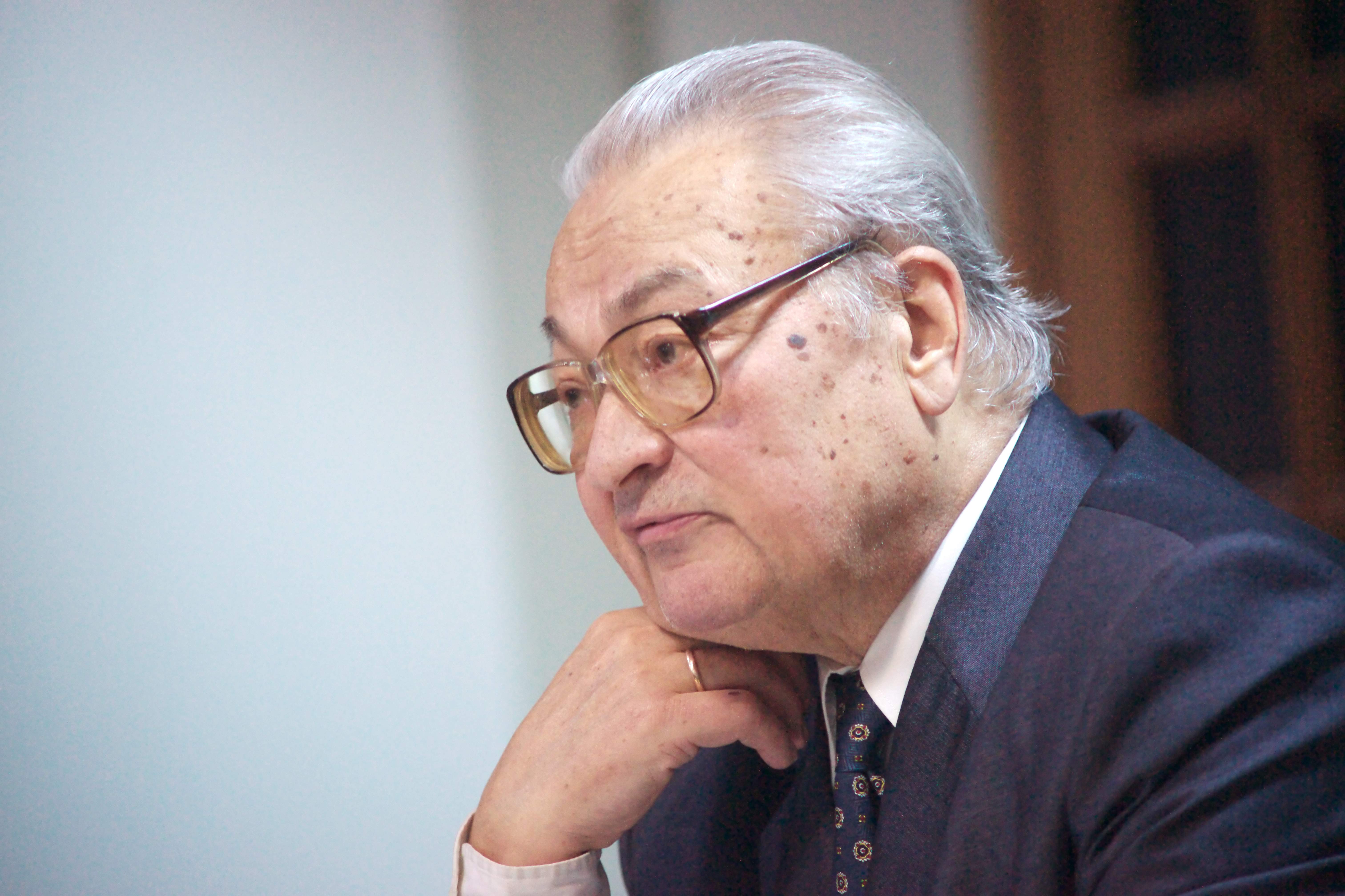 Нienadz Buraukin is a Belarusian poet, journalist and diplomat